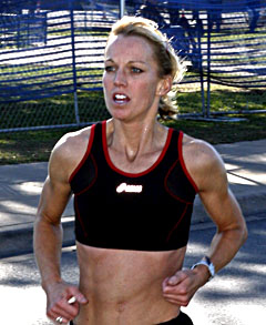 Professional triathlete Desirée Ficker running in the 2009 Statesman Cap 10K. (She won the women's overall division in 34:56.0, a pace of 5:37/mi.)